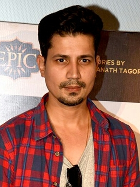 Sumeet Vyas at an Epic channel event.